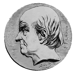 Drawing of a medallion representing the portrait of the French mathematicien Sylvestre-François Lacroix